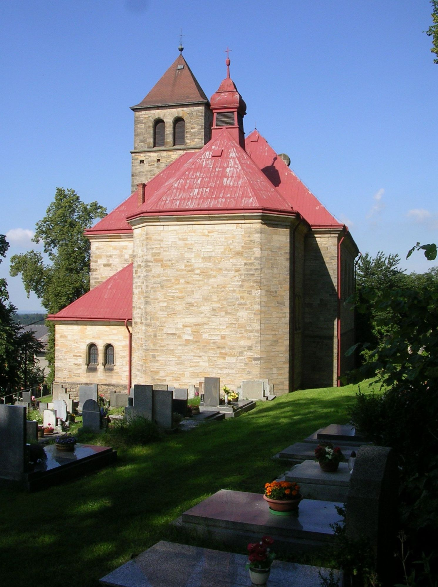 Vyskeř, Semily District, Liberec Region, the Czech Republic. The church of the Assumption.